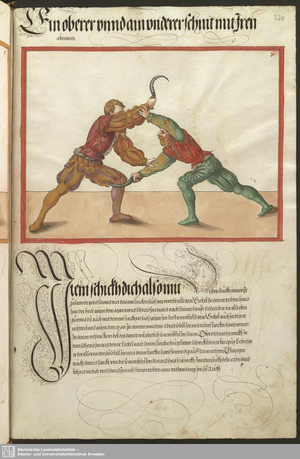 Extract of Mscr. Dresd. C 93/94